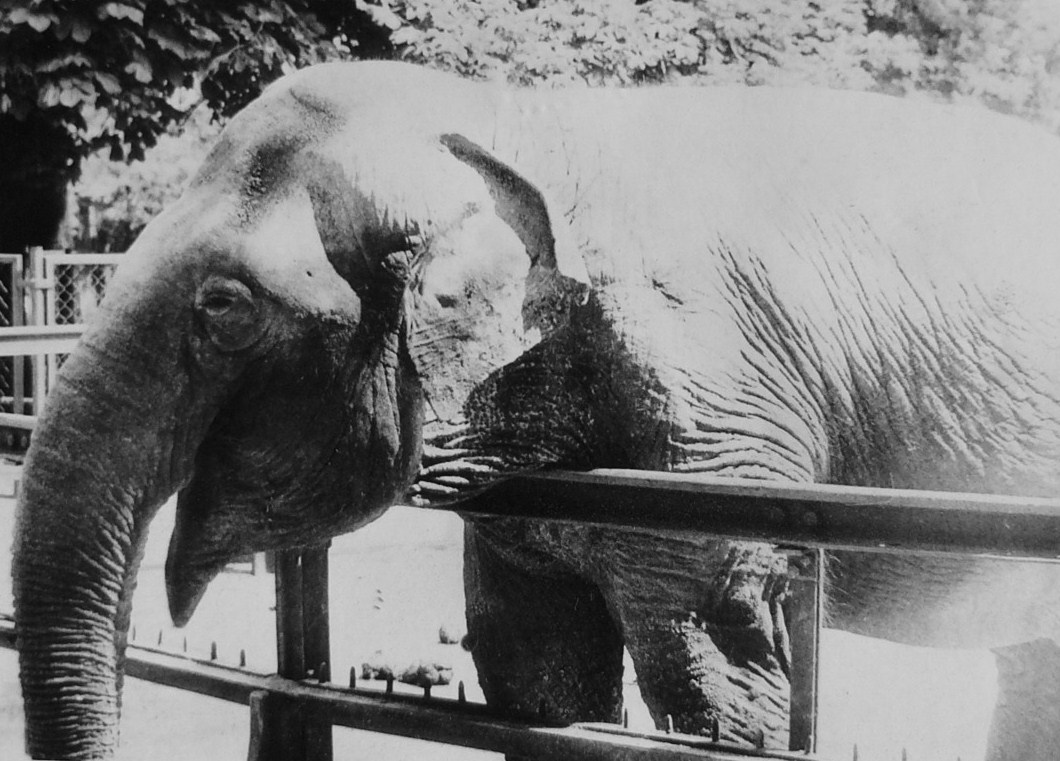 Elaphant Kinga in Poznan Old ZOO.